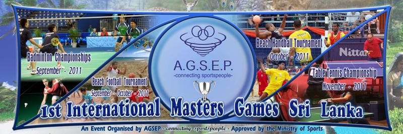 Master Games Sri Lanka Banner